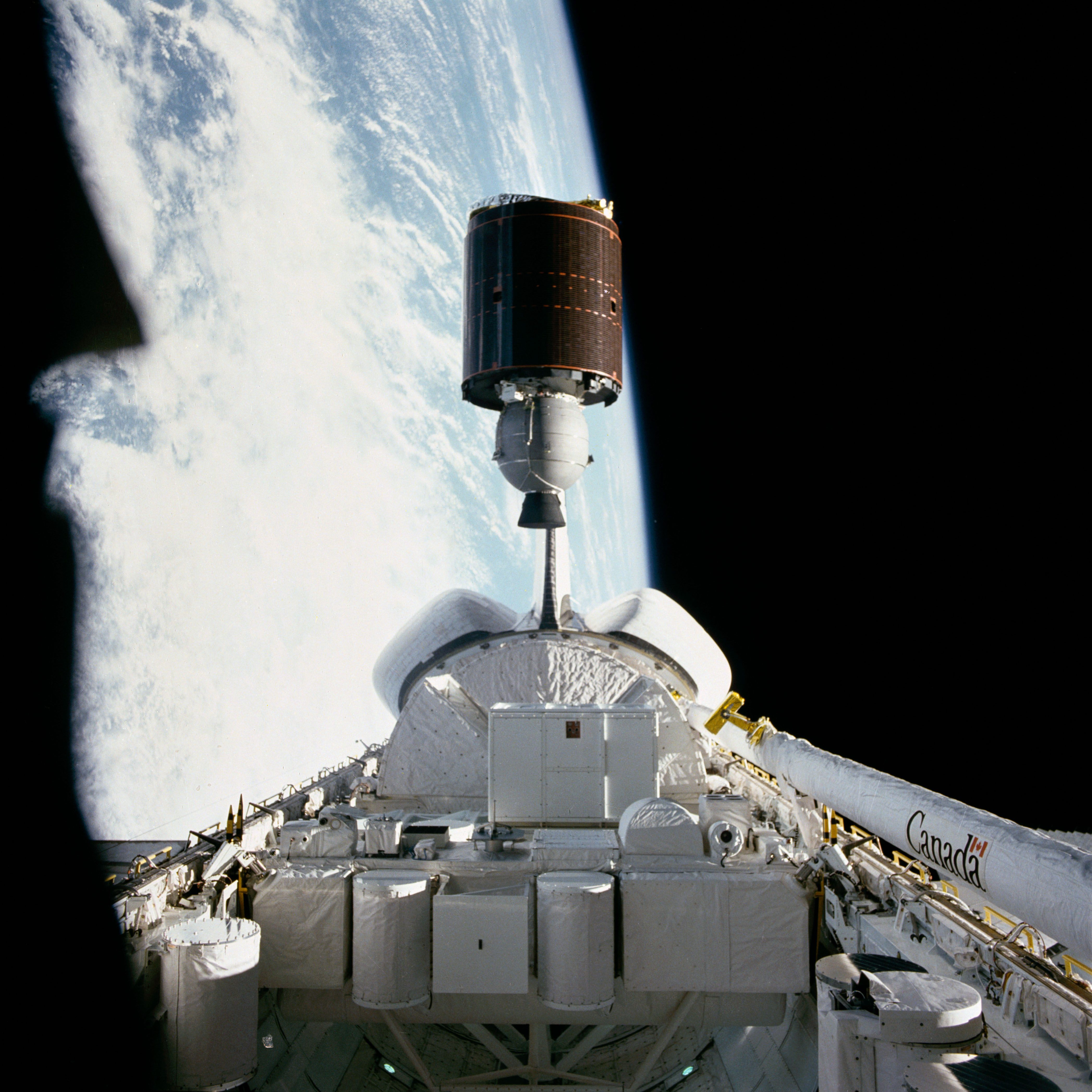 Deployment of the Anik C2 satellite during STS-7. The Canadian Telesat-F (Anik C2) communications satellite is about to clear the vertical stabilizer of the shuttle Challenger to begin its way to its earth-orbital destination. Also visible in this frame are the Shuttle pallet satellite, the experiment package for NASA's Office of Space and Terrestrial Applications (OSTA-2), some get-away special (GAS) canisters and the Canadian built remote manipulator system (RMS) arm.